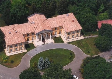 Agárd (Gárdony) - castle, Hungary, aerialphotgraphy (Nádasdy Mansion)